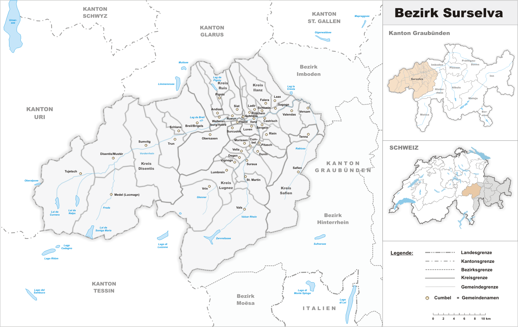 Municipalities in the district of Surselva